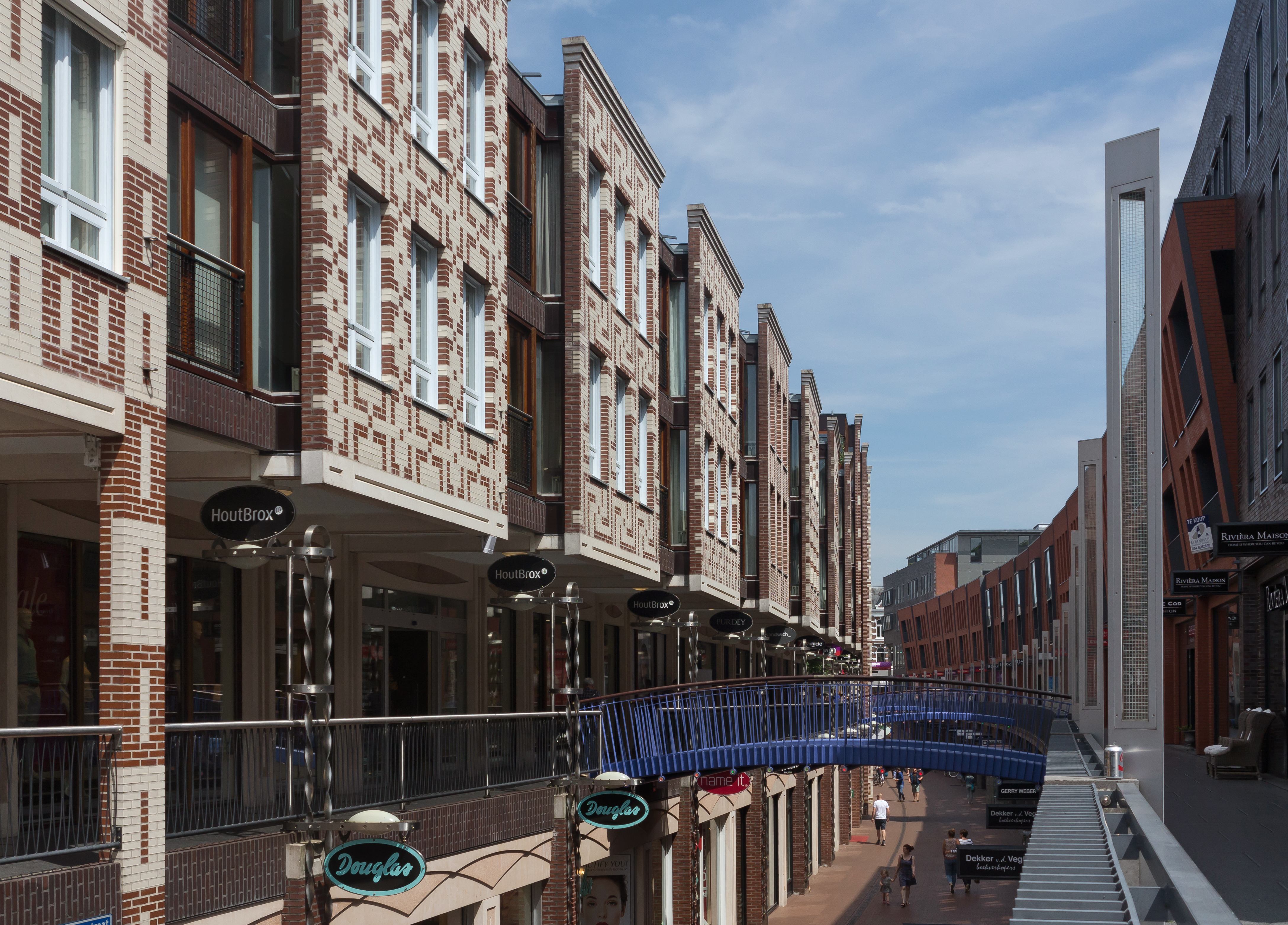 Nijmegen, street view: de Marikenstraat